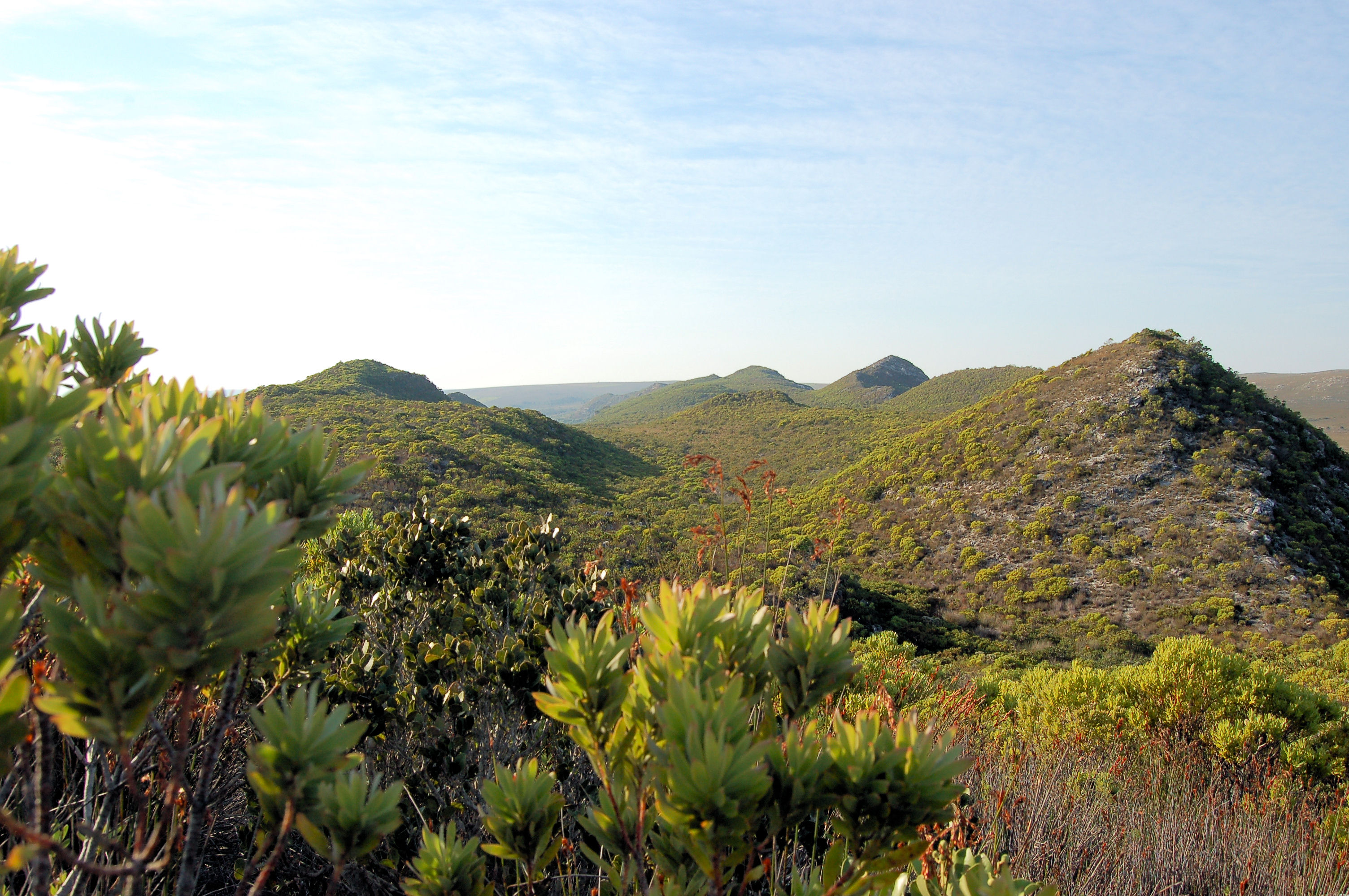 Western Cape Fynbos, at Farm Walti near Baardscheerdersbos, Cape Strandveld, Western Cape, South Africa